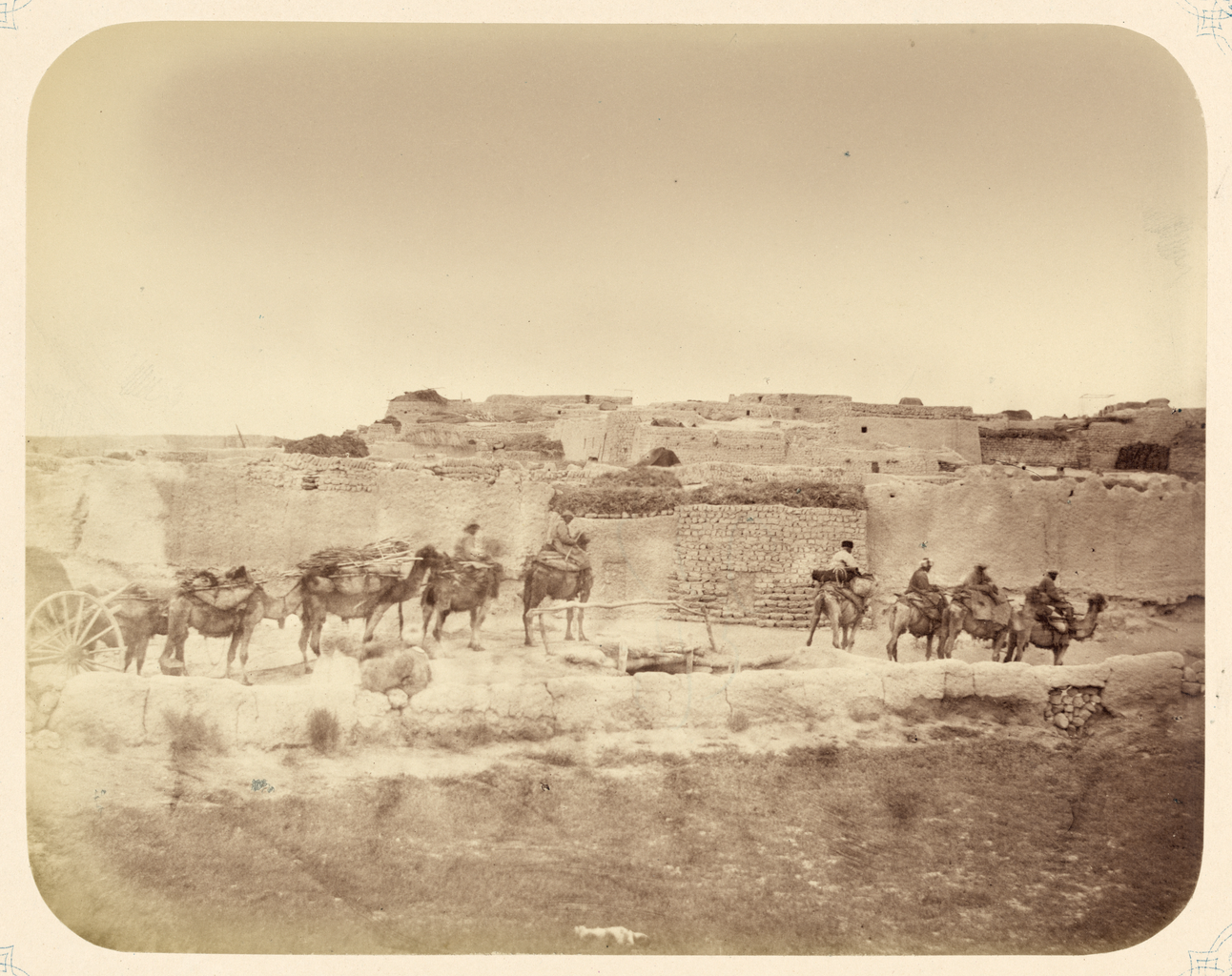 This photograph is from the ethnographical part of Turkestan Album, a comprehensive visual survey of Central Asia undertaken after imperial Russia assumed control of the region in the 1860s. Commissioned by General Konstantin Petrovich von Kaufman (1818–82), the first governor-general of Russian Turkestan, the album is in four parts spanning six volumes: “Archaeological Part” (two volumes); “Ethnographic Part” (two volumes); “Trades Part” (one volume); and “Historical Part” (one volume). The principal compiler was Russian Orientalist Aleksandr L. Kun, who was assisted by Nikolai V. Bogaevskii. The album contains some 1,200 photographs, along with architectural plans, watercolor drawings, and maps. The “Ethnographic Part” includes 491 individual photographs on 163 plates. The photographs show individuals representing the different peoples of the region (Plates 1–33); daily life and rituals (Plates 34–91); and views of villages and cities, street vendors, and commercial activities (Plates 92–163). Adobe buildings; Camels; Ethnographic photographs; Photographic surveys; Villages